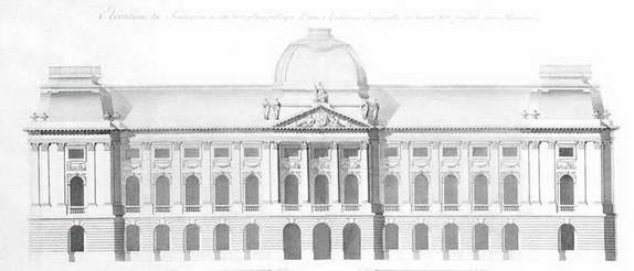 Jacques-François Blondel. The building project for the Academy of Fine Arts in Moscow. 1758